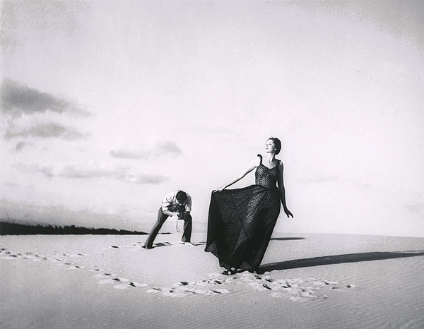 Fashion shot, Cronulla sandhills, photograph taken by Olive Cotton. The male photographer in the shot is Max Dupain.